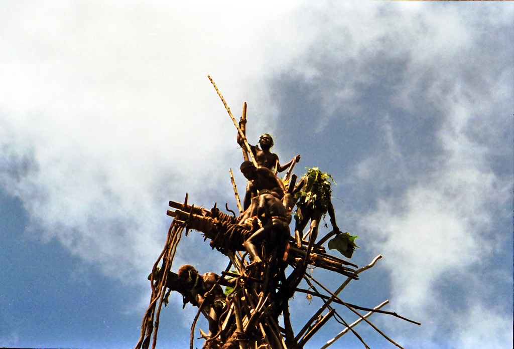 The Village Chief is preparing for the jump